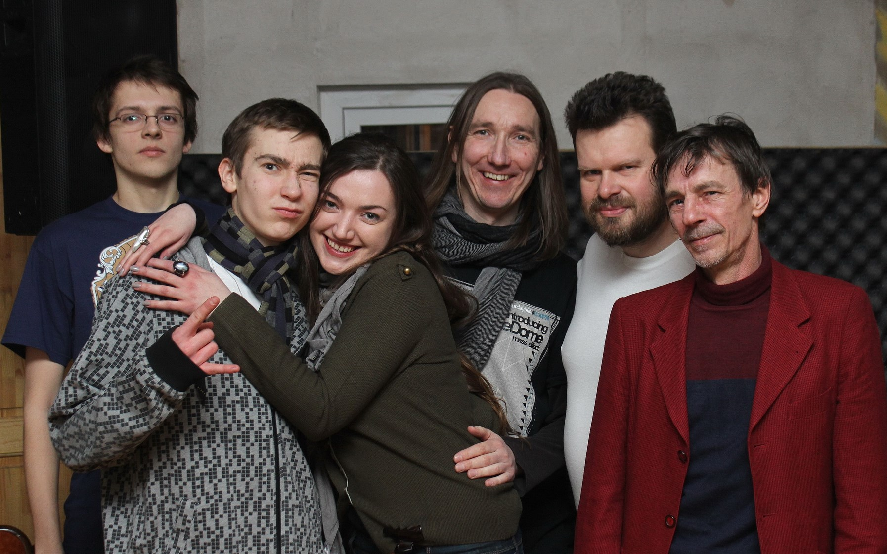 Teatr Tworzenia before The "Album Rodzi Inny" show.